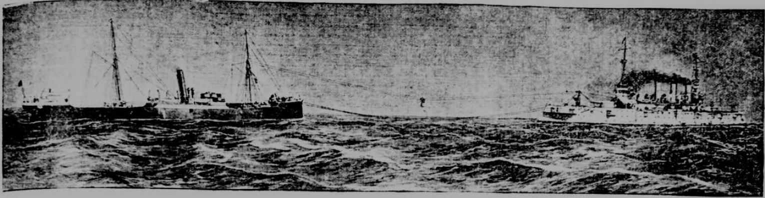 The cruiser New York (ACR-2) coaling at sea from the collier Marcellus, November 1899. Note, while the picture clearly shows it is the New York, the accompanying article specifically mentions the Battleship Massachusetts as the warship used in the experiment, making no mention of the USS New York being involved.